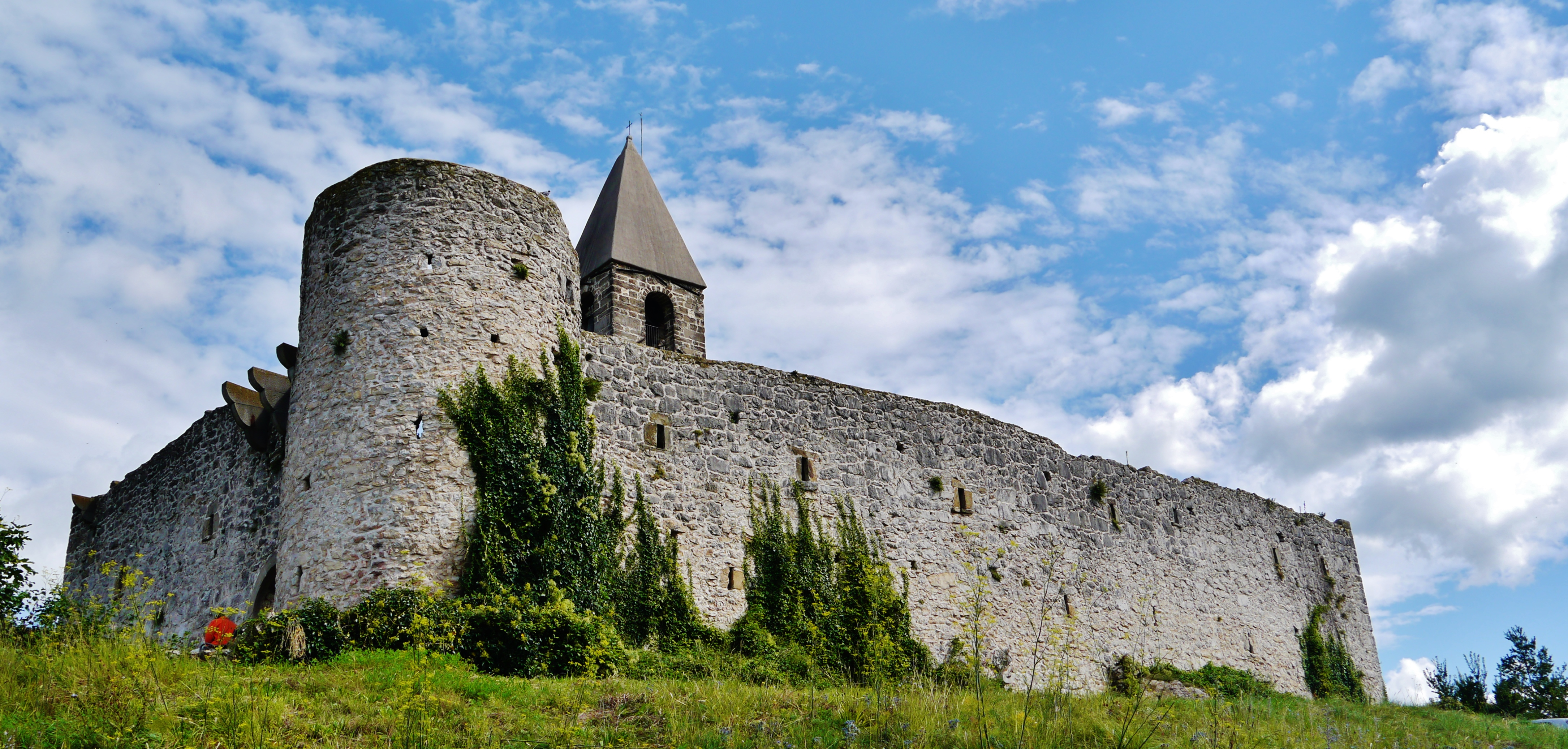 Holy Trinity Church, Hrastovlje, Slovenia